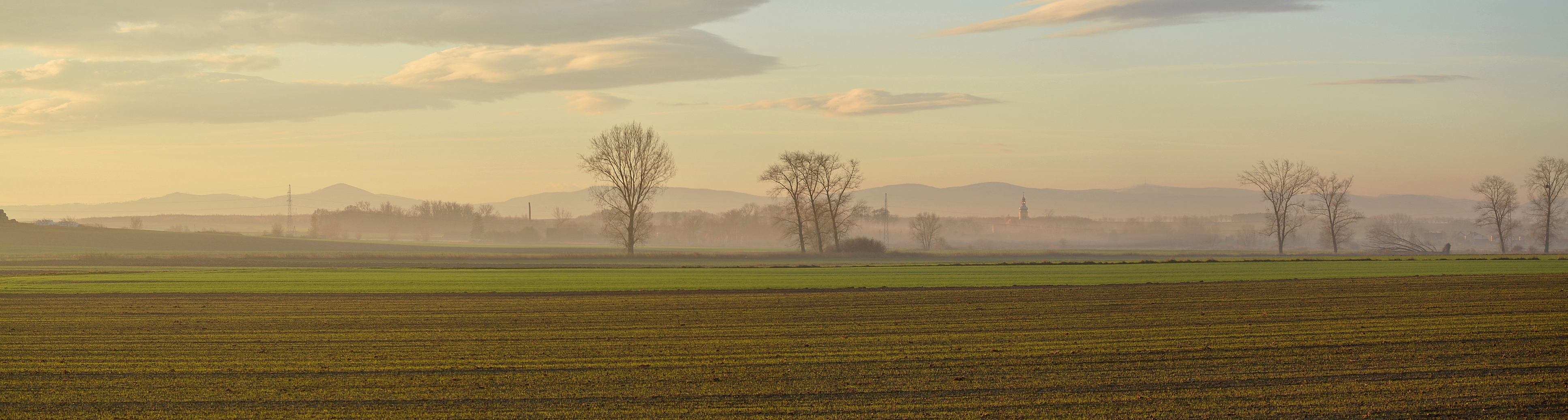 Jeseníky mountains (Gesenke, Jesioniki) - view from Polish Silesia